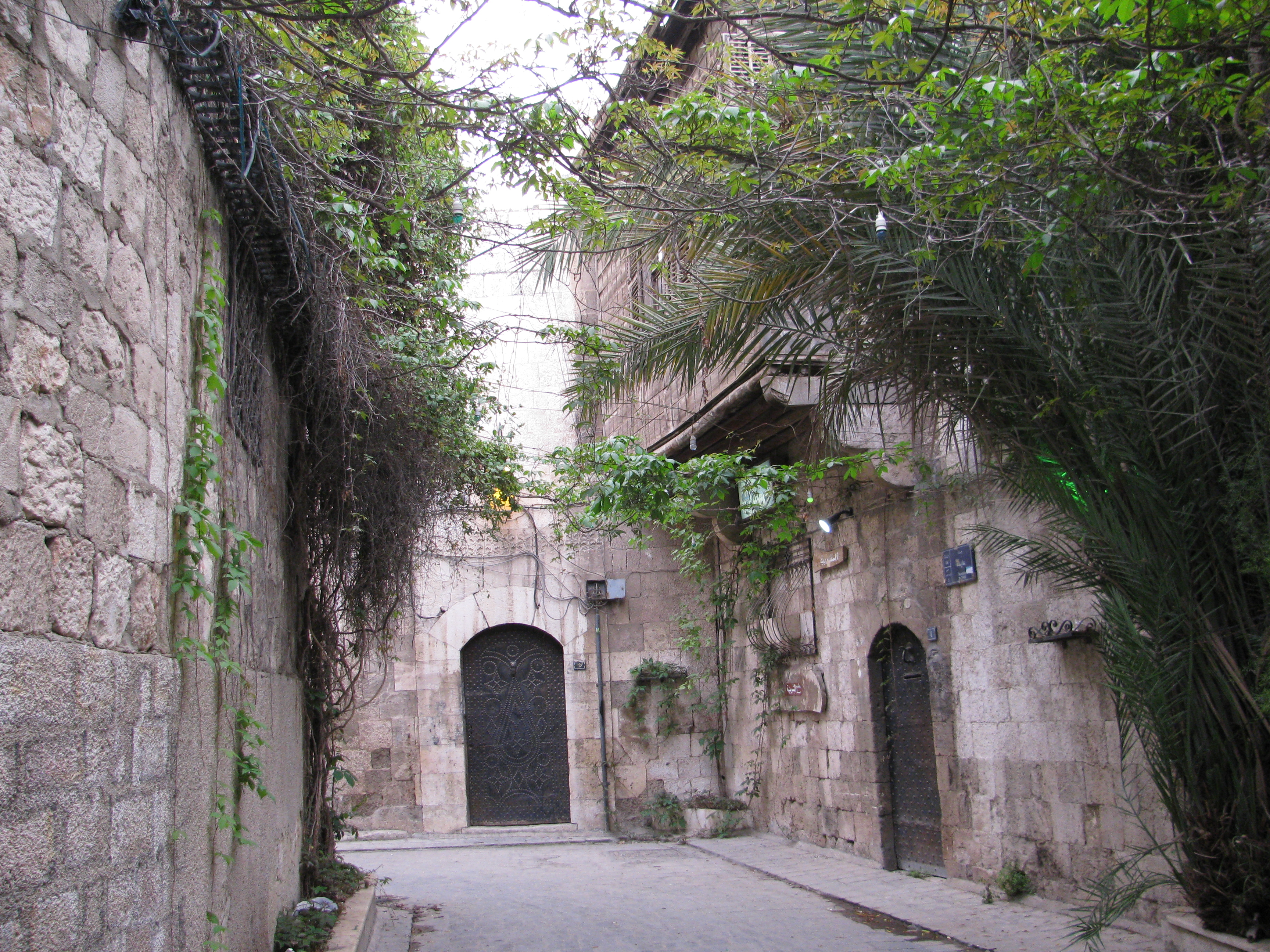 Aleppo, Jdeydeh quarter.